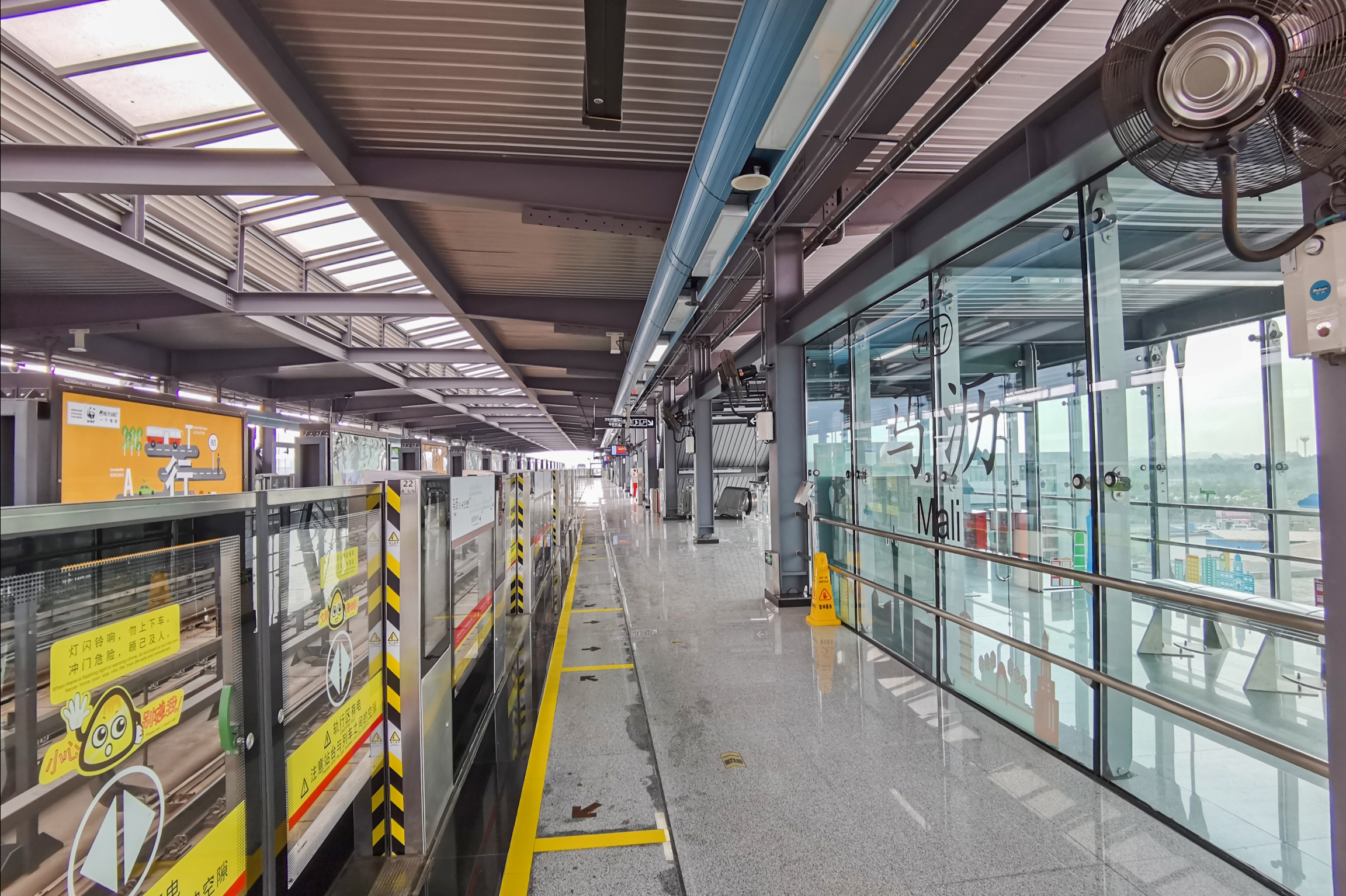 广州地铁马沥站